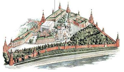 Overview map of the Moscow Kremlin. Location of The Faceted Palace marked.